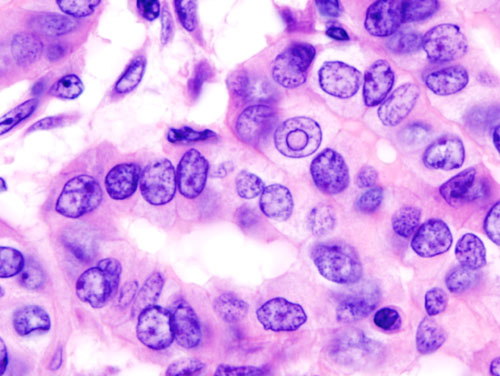 Histopatholgical image of papillary carcinoma of the thyroid gland obtained by a total thyroidectomy. Hematoxylin and eosin stain. Another version of an accompanying file "Thyroid_papillary_carcinoma_histopathology_(3).jpg".